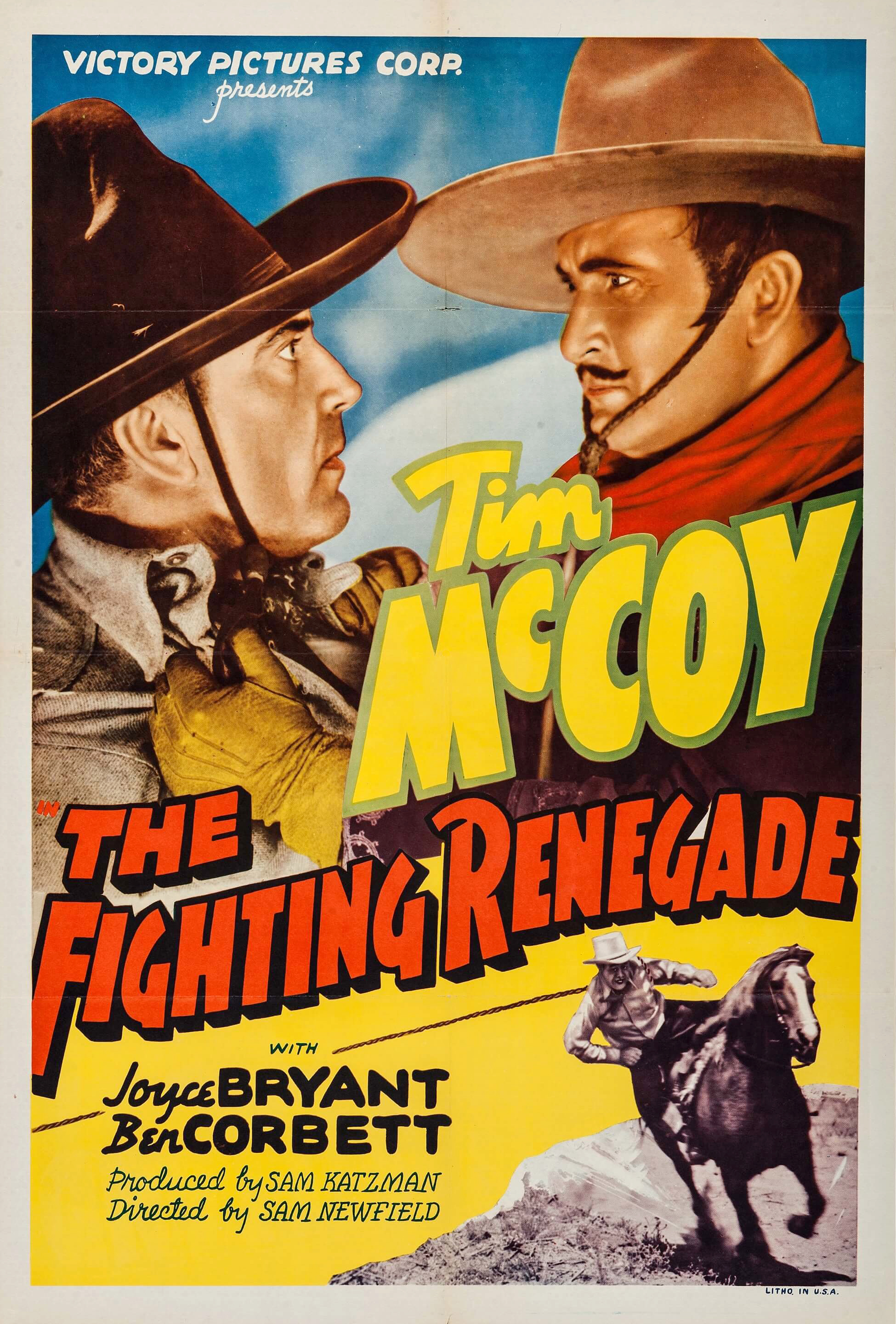 Poster for the 1939 film The Fighting Renegade. The item has no copyright markings on it as can be seen in the links above. At bottom right is Litho in USA.